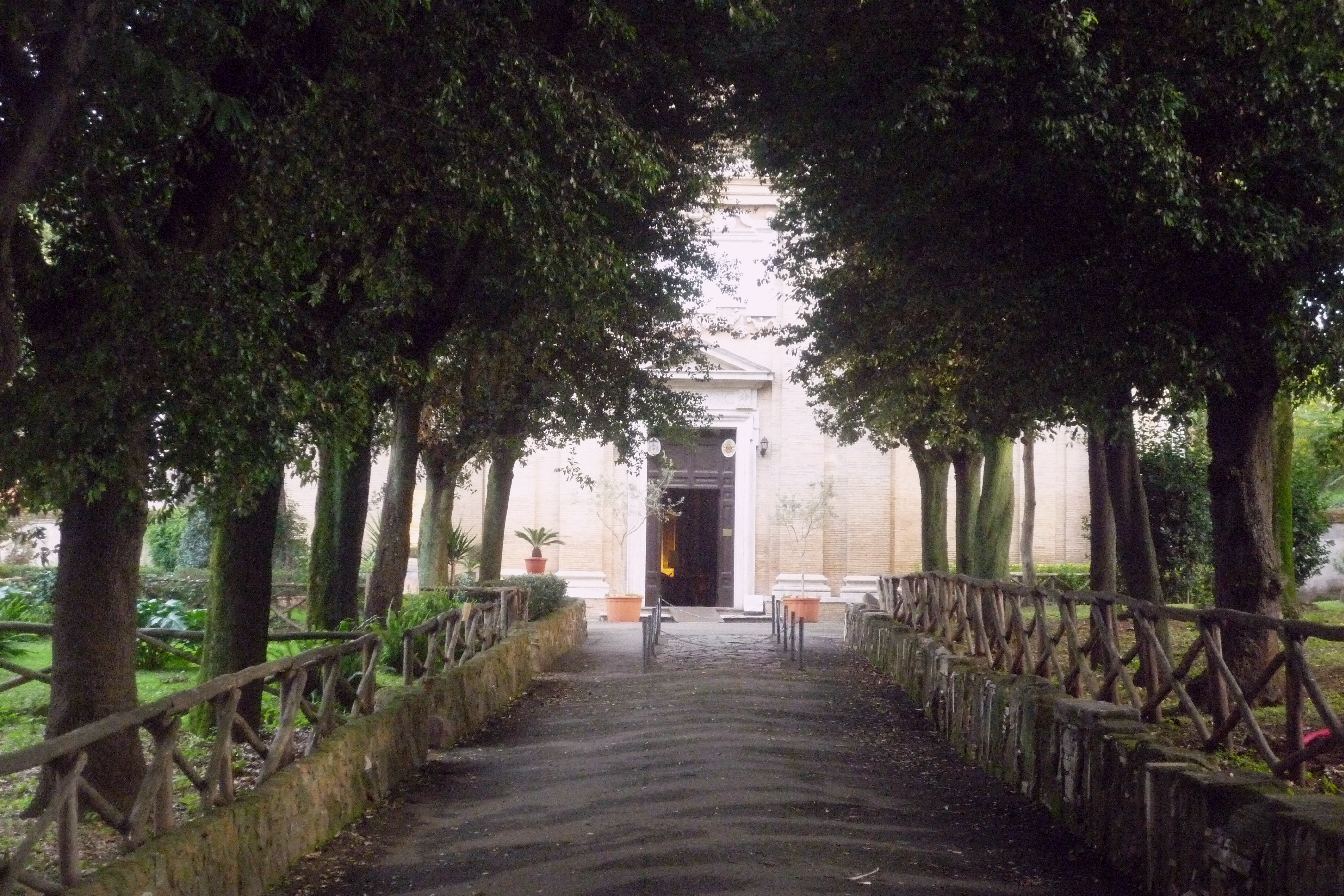 Church of Saint Paul Apostle, "Tre Fontane" Abbey, Rome - Italy